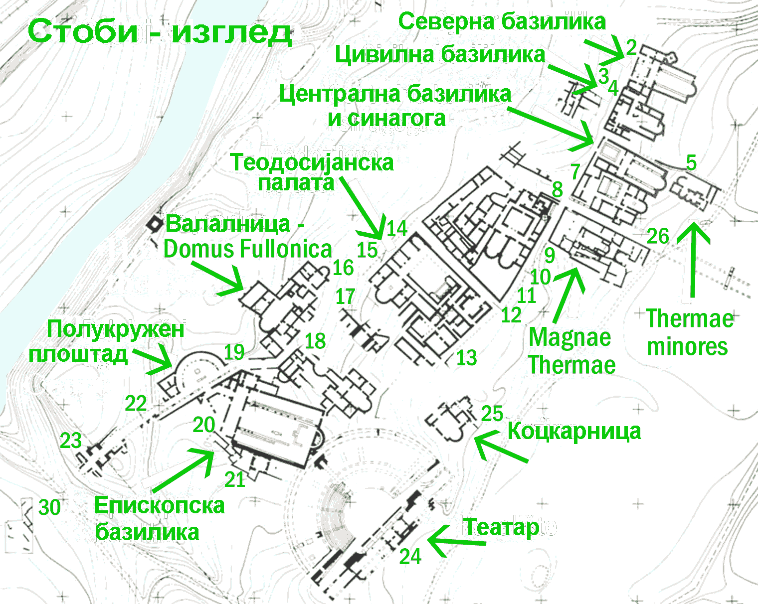 Plan of archeological site Stobi